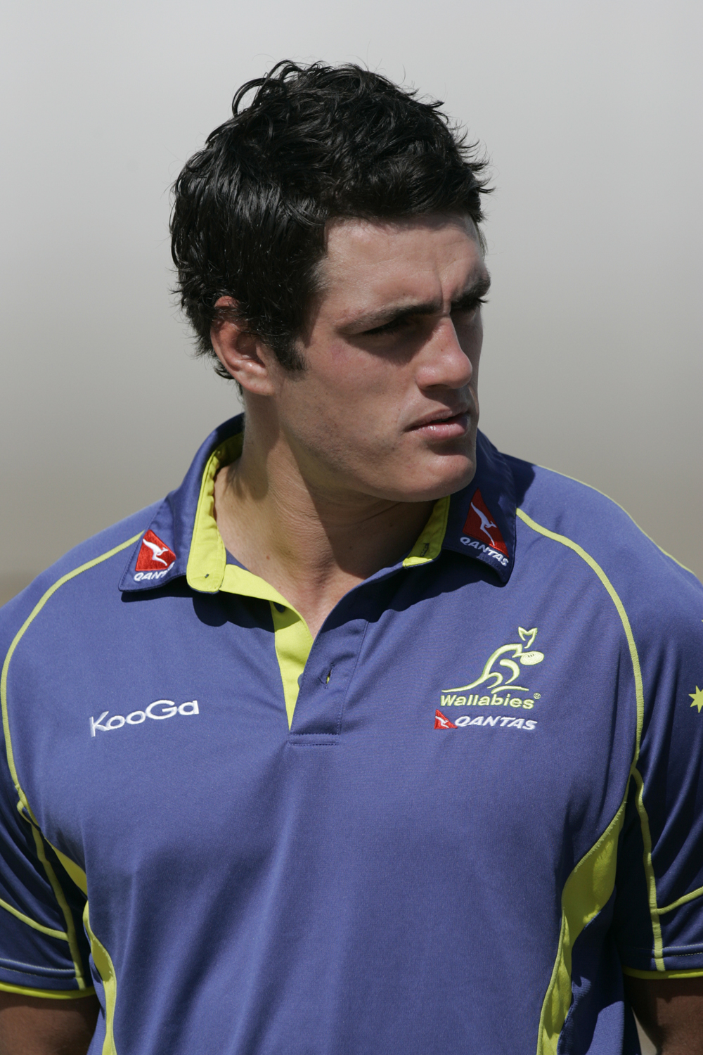 The Qantas Wallabies unveil a Boeing 737-800 aircraft sporting a giant moustache which will fly around the country for the month of November raising awareness of prostate cancer and men's mental health.